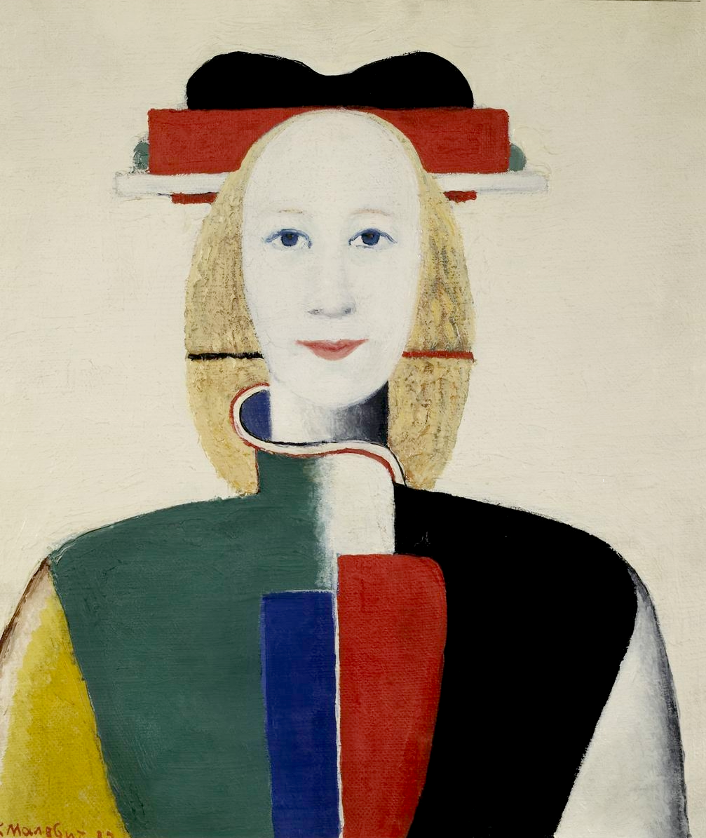 Girl with a Comb in her Hairlabel QS:Len,"Girl with a Comb in her Hair"label QS:Lnl,"Meisje met kam in haar"label QS:Lru,"Девушка с гребнем в волосах"